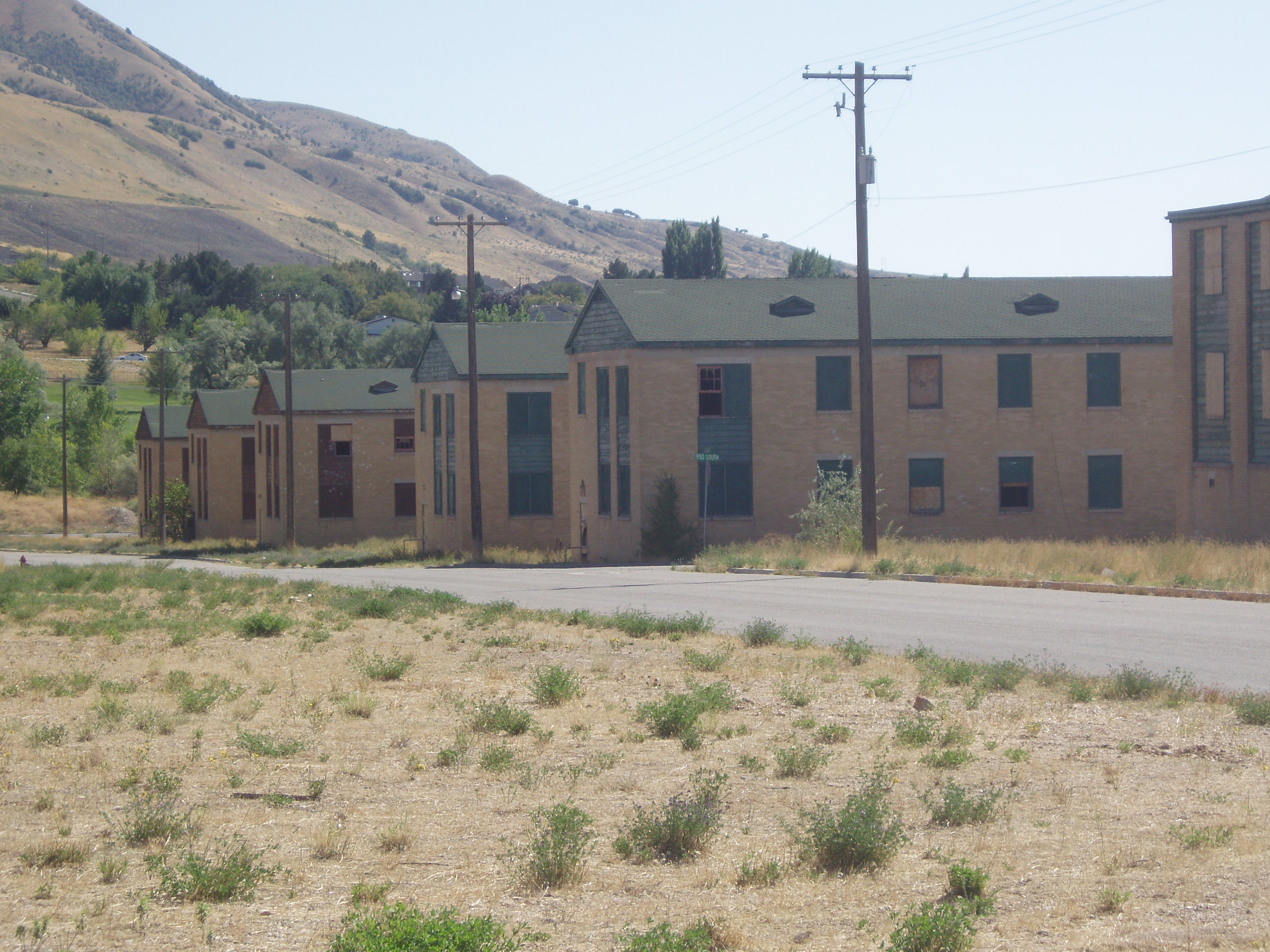 Vacant buildings at the former Intermountain Indian School in Brigham City, Utah, United States